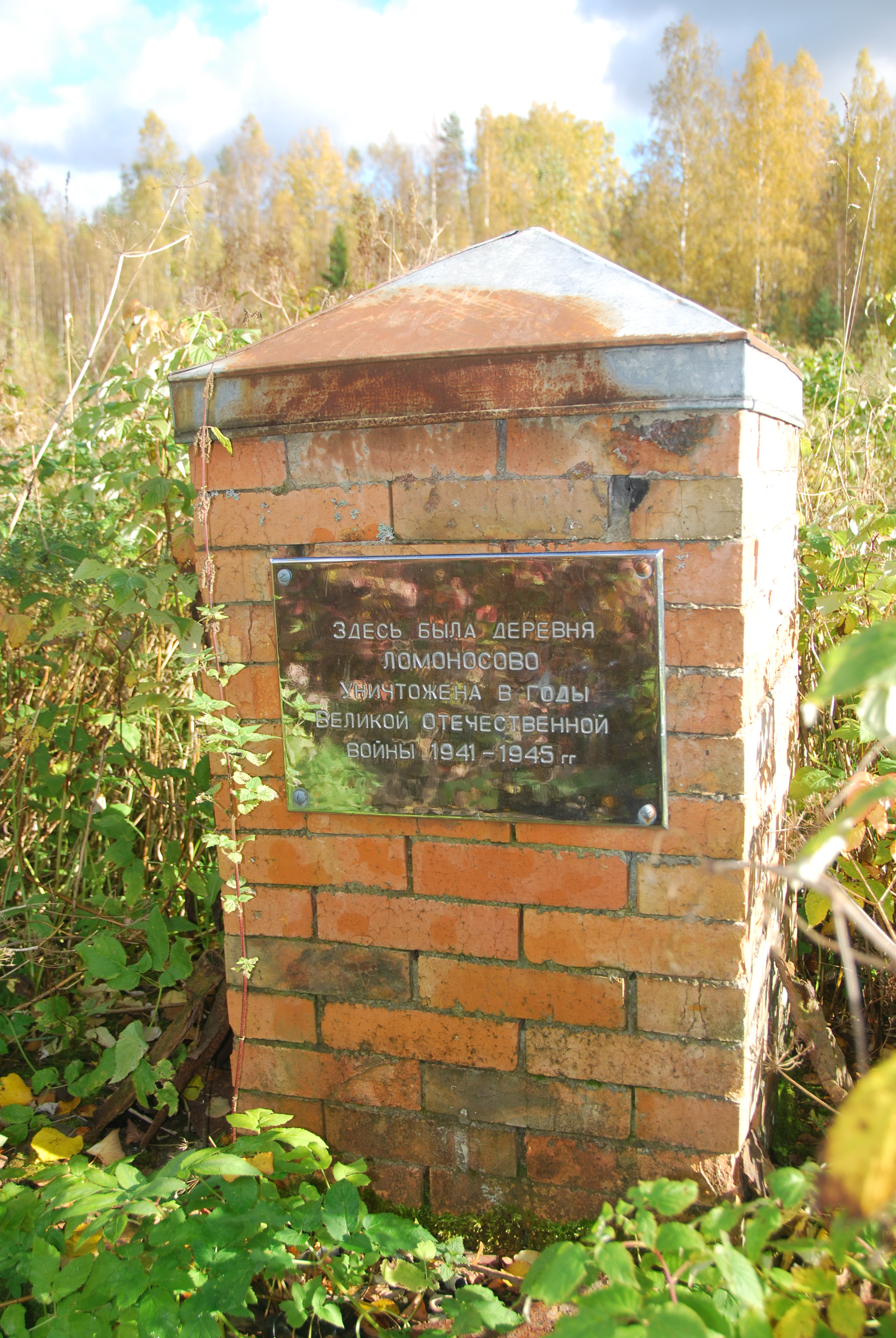 Memorial at the place of hamlet Lomonosovo